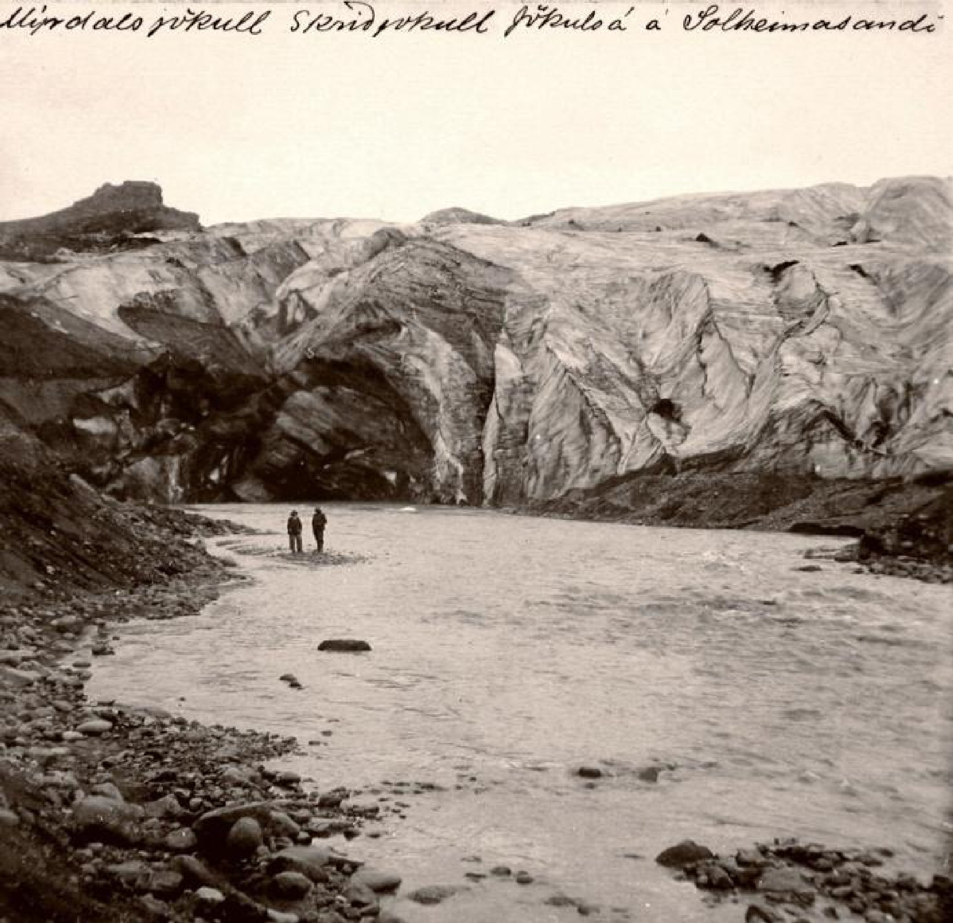 A photo of two unidentified men taken near Sólheimajökull which is a icefall off Mýrdalsjökull by Magnús Ólafsson, a pioneer in photography in Iceland, in 1910.